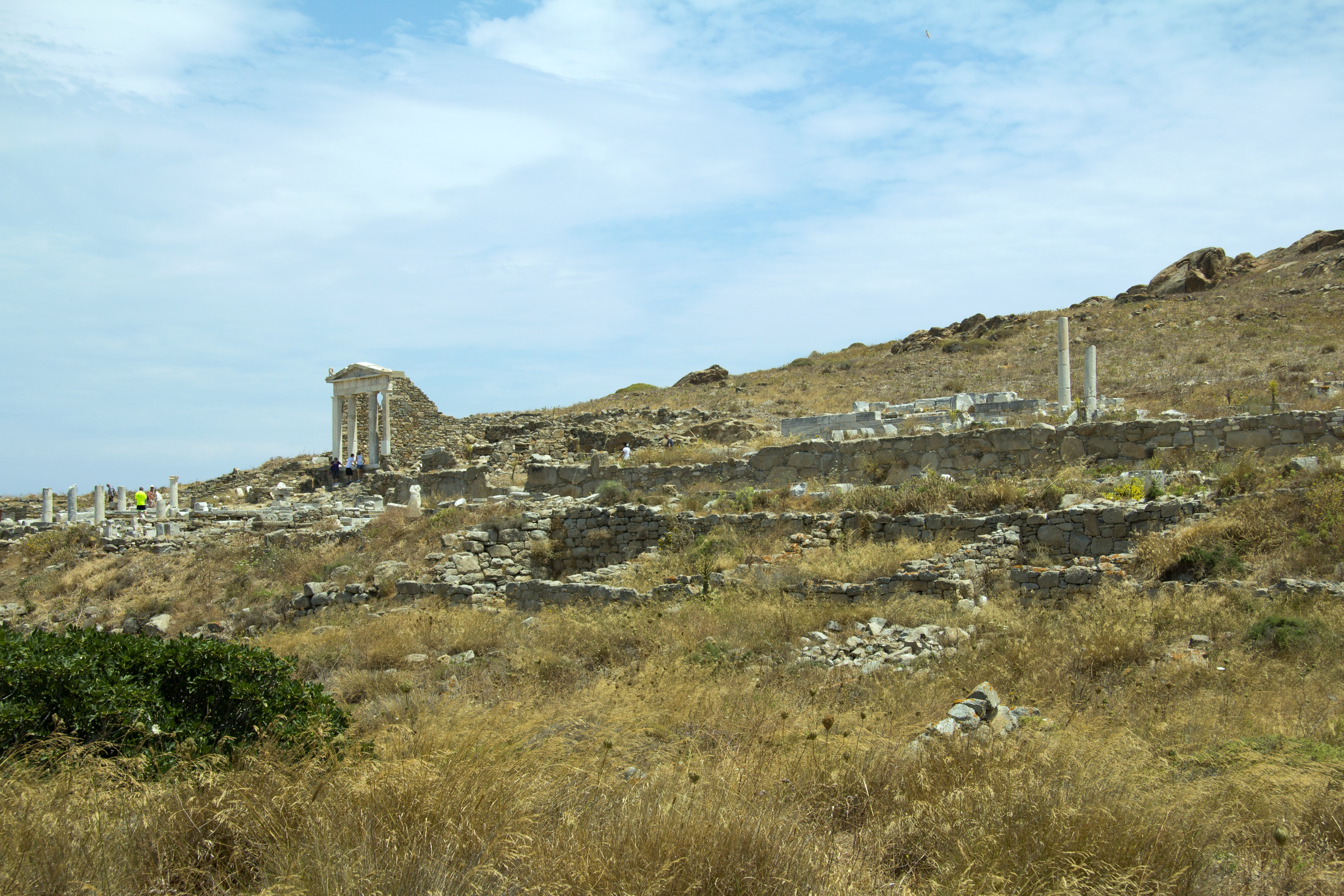 Temples of Hera (above right), Isis (above left) and the Egyptian and Syrian gods on Delos.